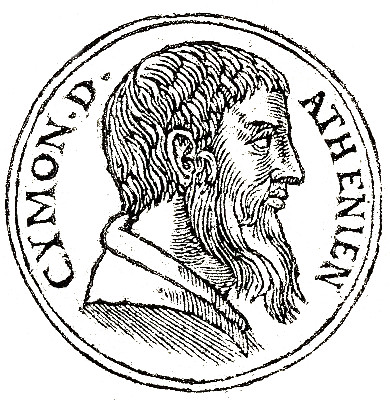 Cimon was an Athenian statesman, strategos, and major political figure in mid-5th century BC Greece.